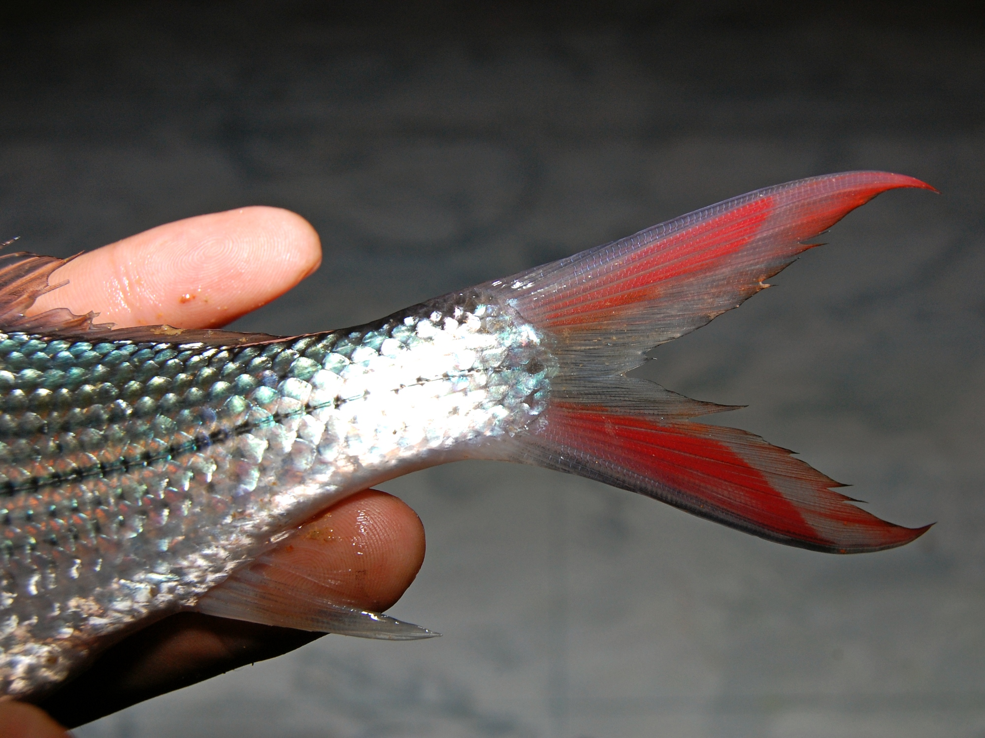 Labiobarbus fasciatus, 180 mm SL (standard length); caudal fin. From Kawan Batu River (tributary of Mentaya River), Upper Seruyan, Central Kalimantan, Indonesia.